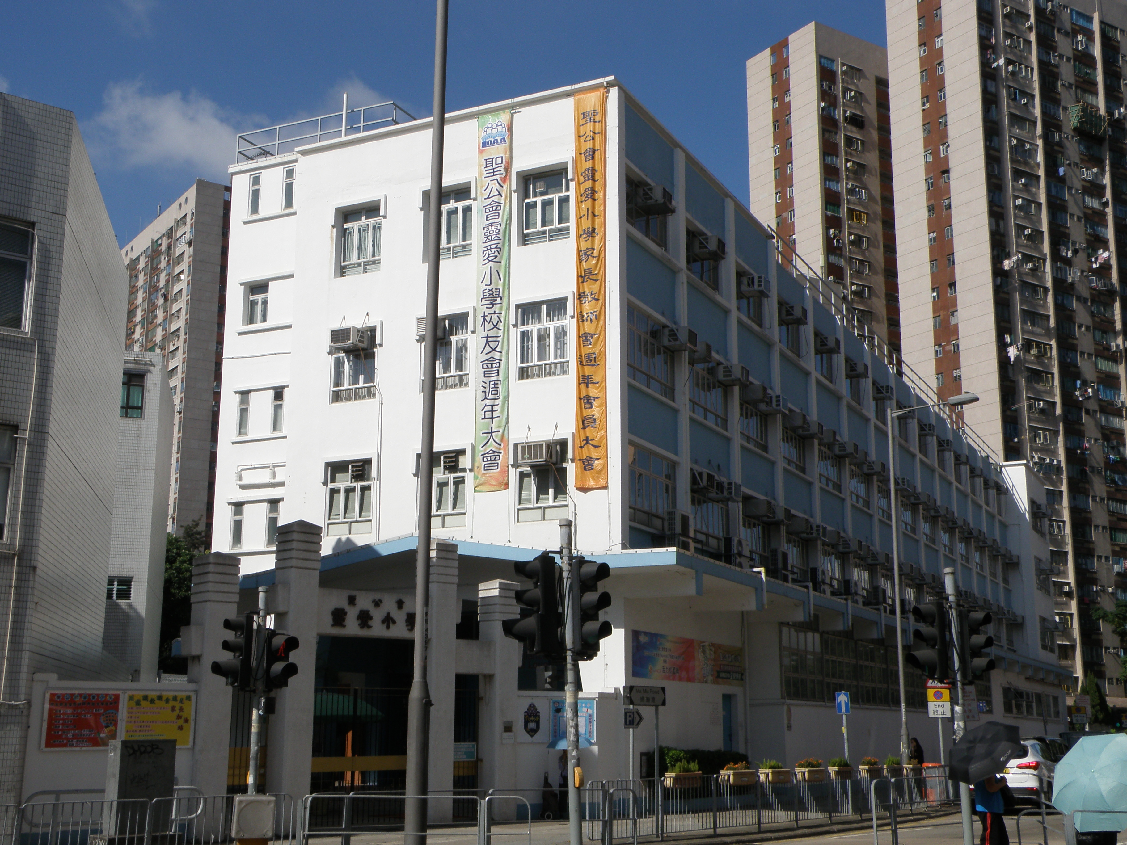 S.K.H. Ling Oi Primary School in Yuen Long, Hong Kong.